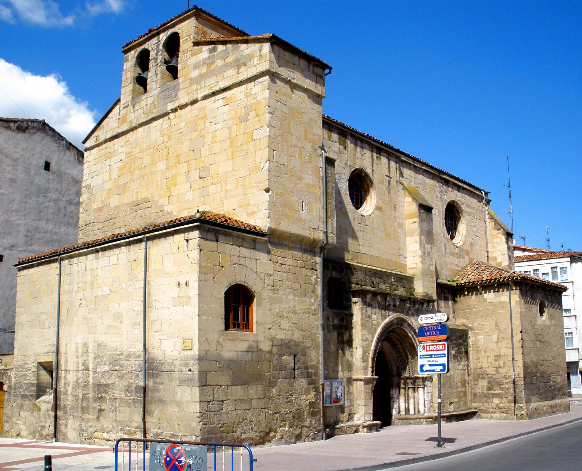 Iglesia del Espíritu Santo, Miranda de Ebro (Burgos, España)